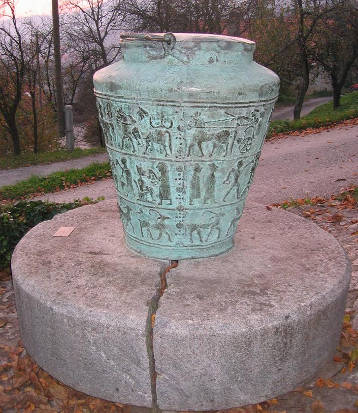 An enlarged copy of situla from Vače, Slovenia